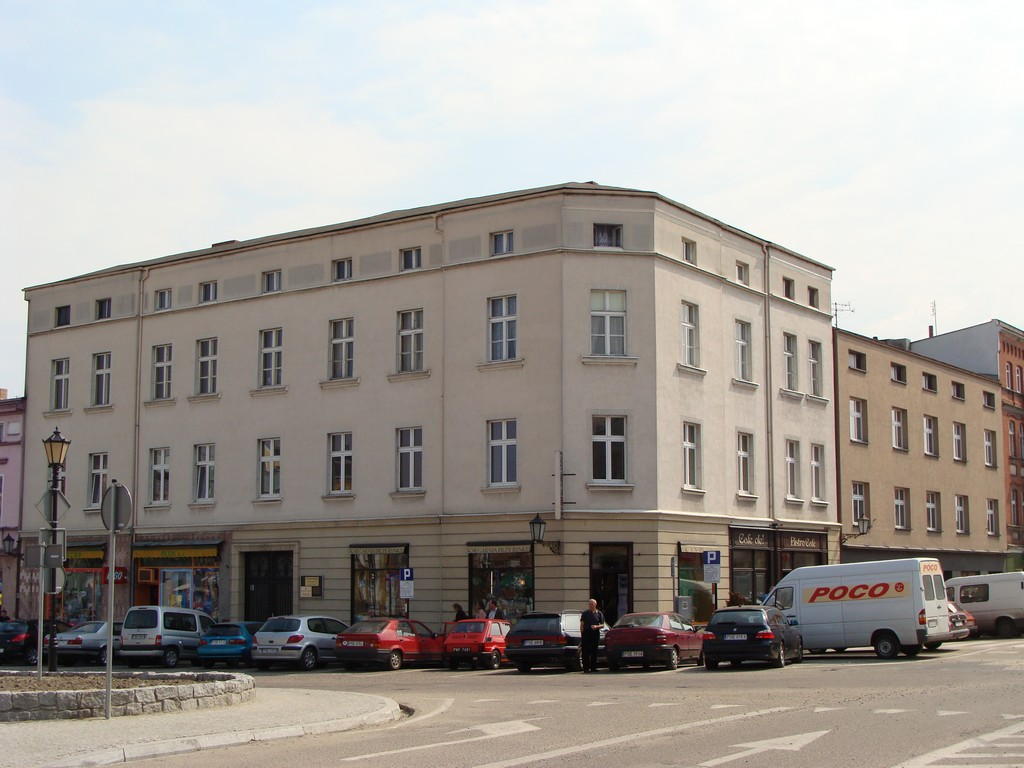 Śrem, 20th October Square.